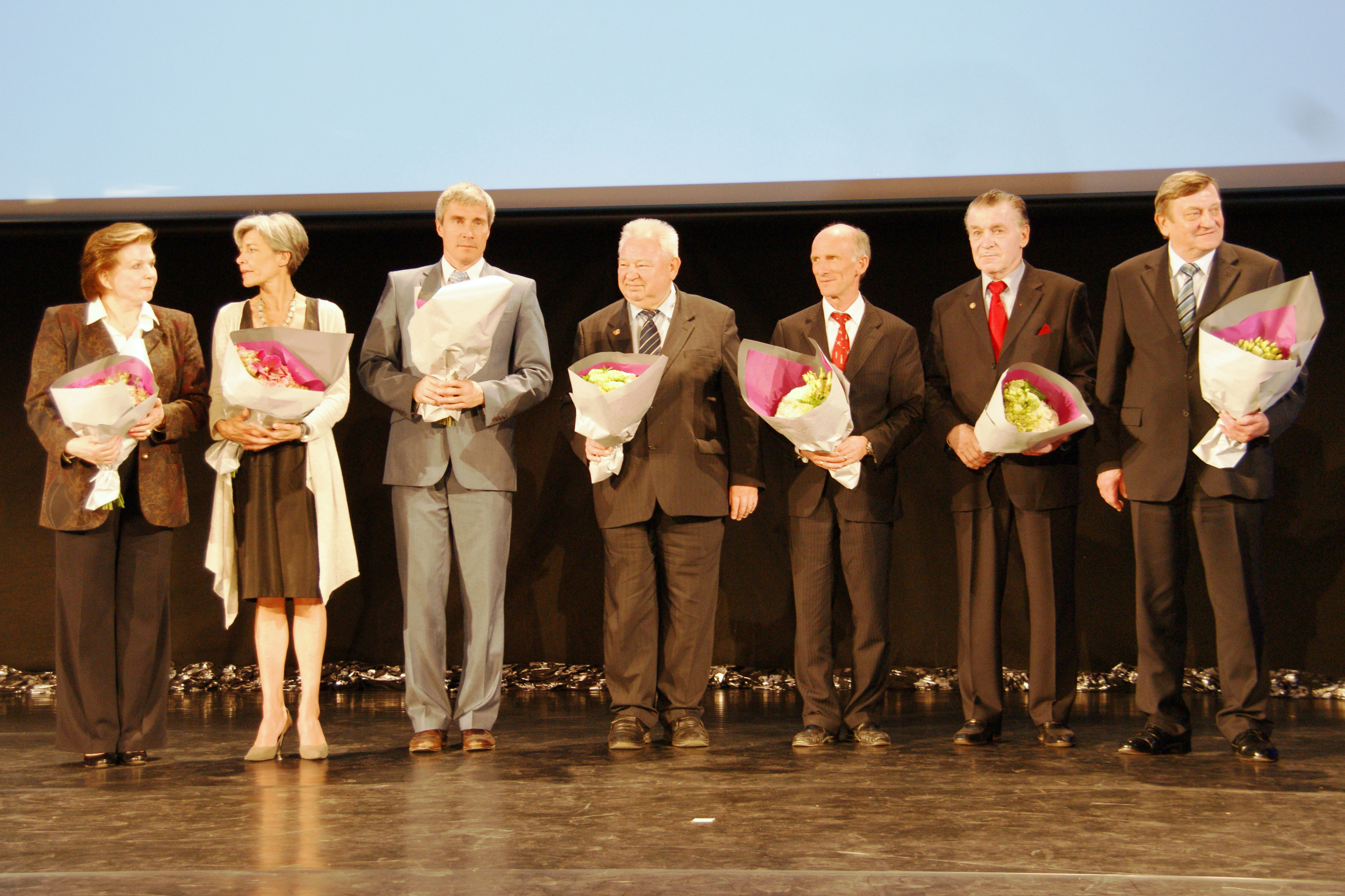 Group of astronauts of several nationalities at UNESCO for the 50th anniversary of Yuri Gagarin’s journey into outer space (12 April 1961), the first ever performed by a human. From left to right: Mrs. Valentina Tereshkova (USSR), Mrs. Claudie Haigneré (France), Mr. Sergei Krikalev (Russia), Mr. Georgy Grechko (USSR), Mr. Gerhard Thiele (Germany), Mr. Aleksandr Serebrov (USSR), Mr. Mirosław Hermaszewski (Poland)